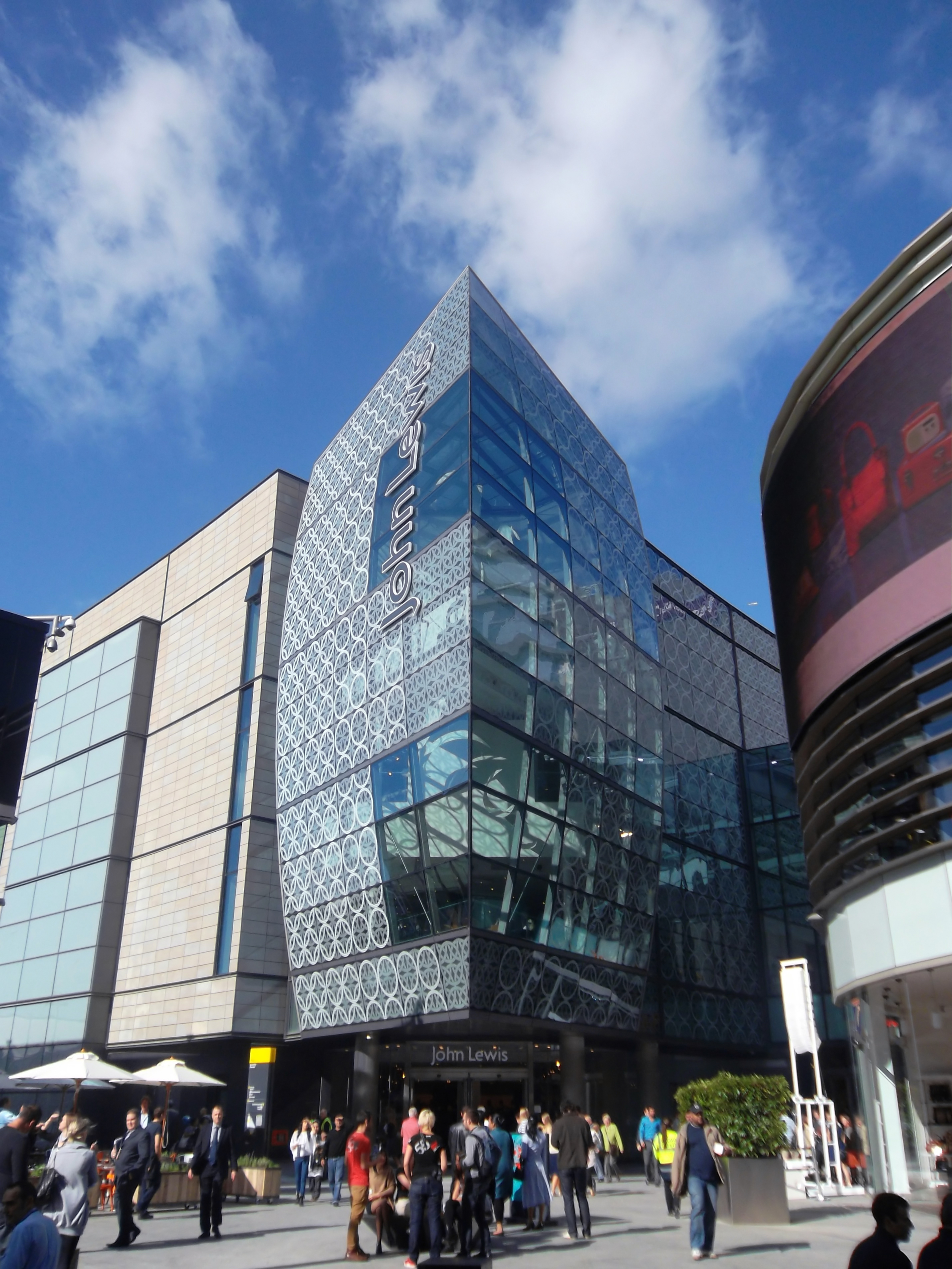 Westfield Stratford City - Outside John Lewis